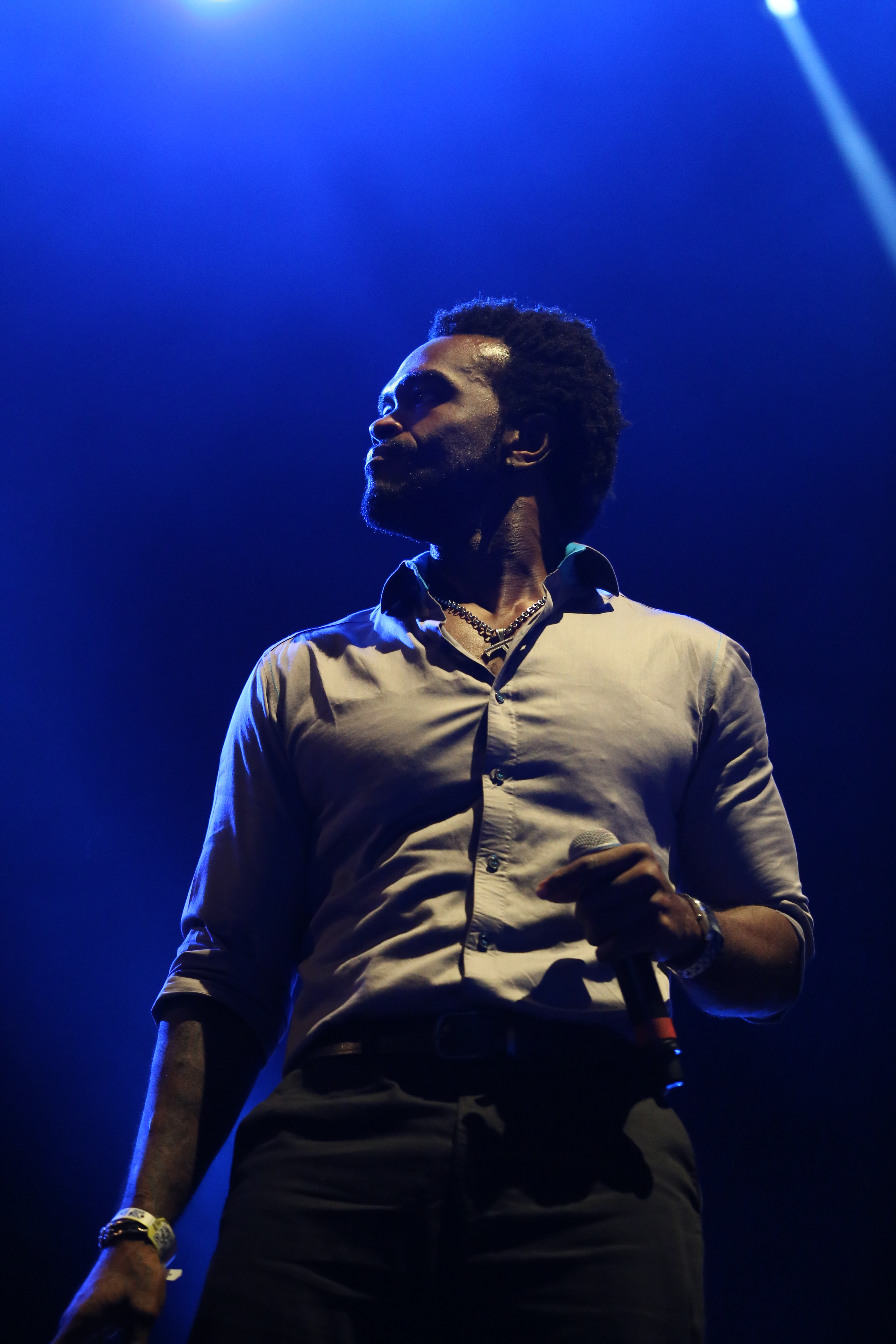 T.O.K. at Chiemsee Reggae Summer Festival 2013